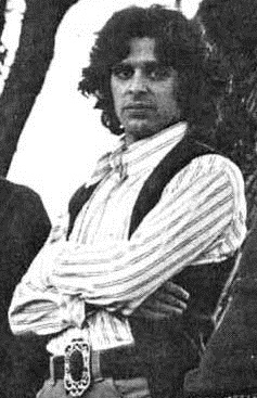 Promotional photograph of Sal Valentino, taken in early 1974 in advance of a Beau Brummels concert.